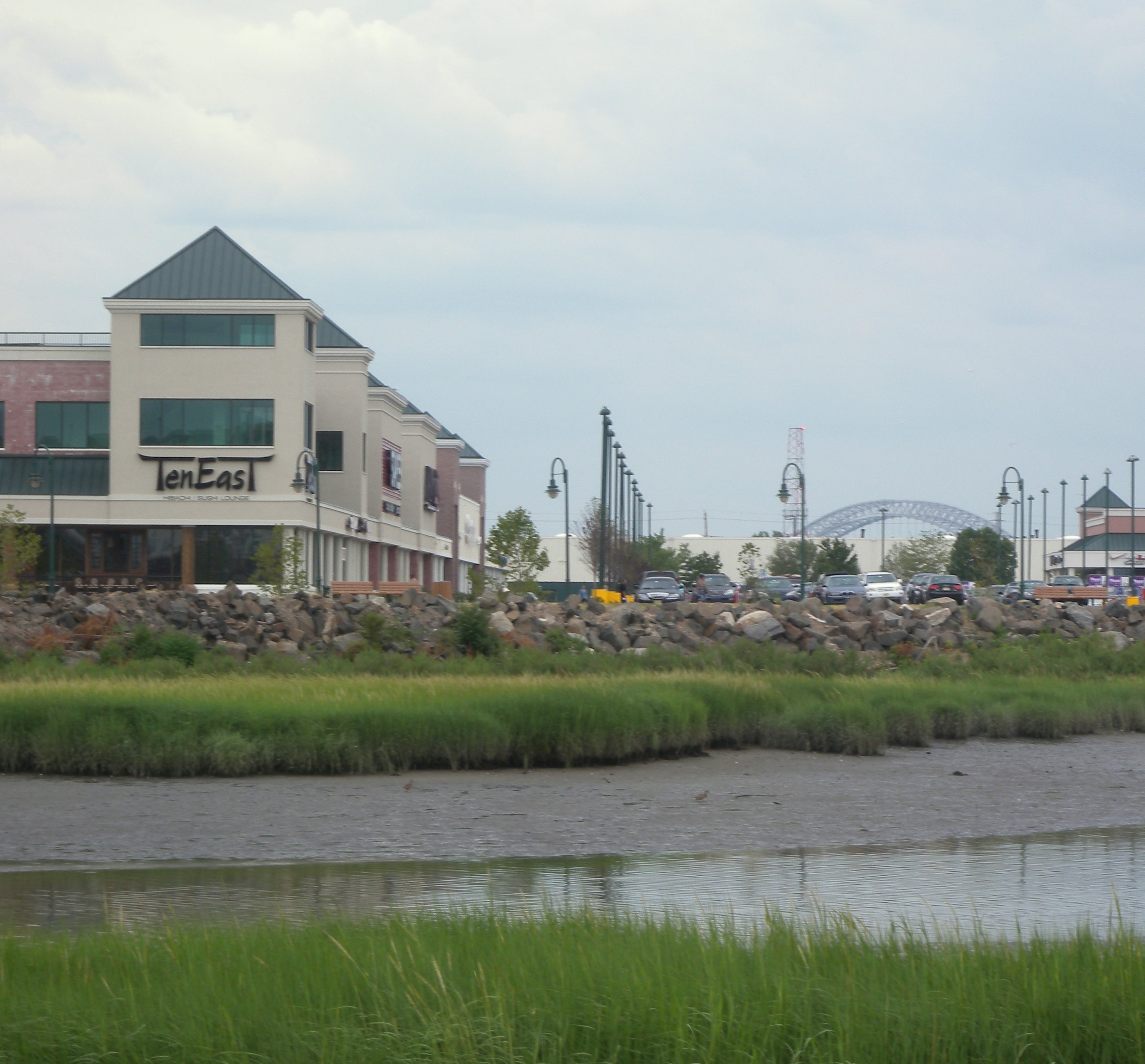 Cropped version